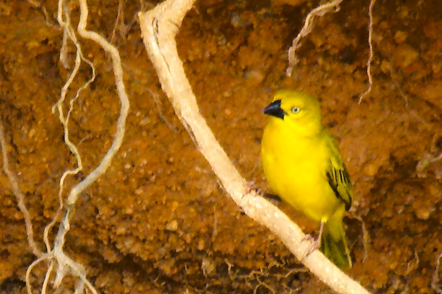 Holub's Golden Weaver (Ploceus xanthops) in Uganda